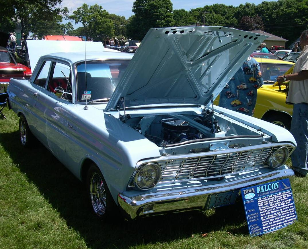 1964 Ford Falcon Source: Photographed at the Bay State Antique Automobile Club's July 10, 2005 show at the Endicott Estate in Dedham, MA by User:Sfoskett